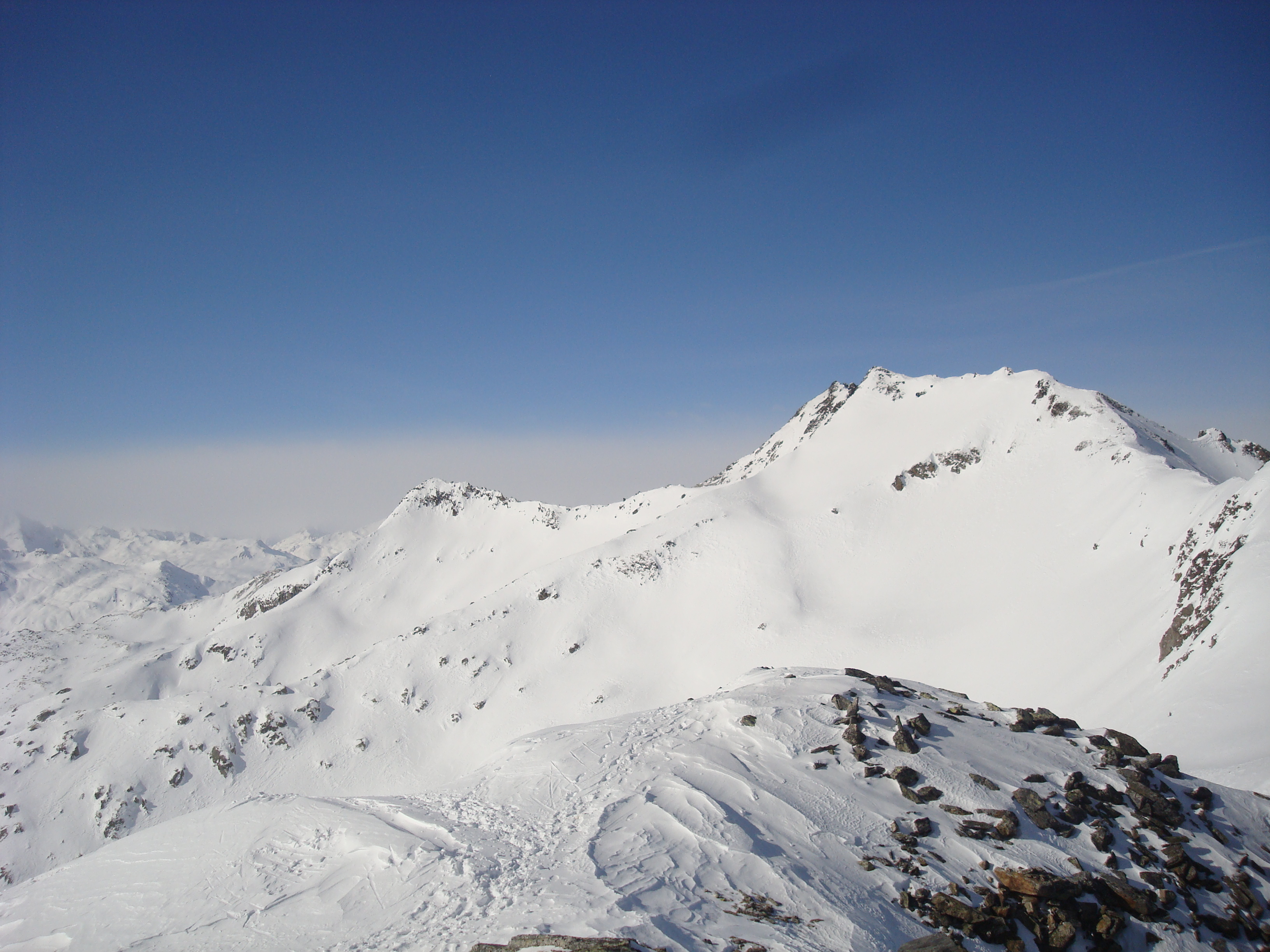 Pizzo Centrale (photo taken on Piz Prévat)